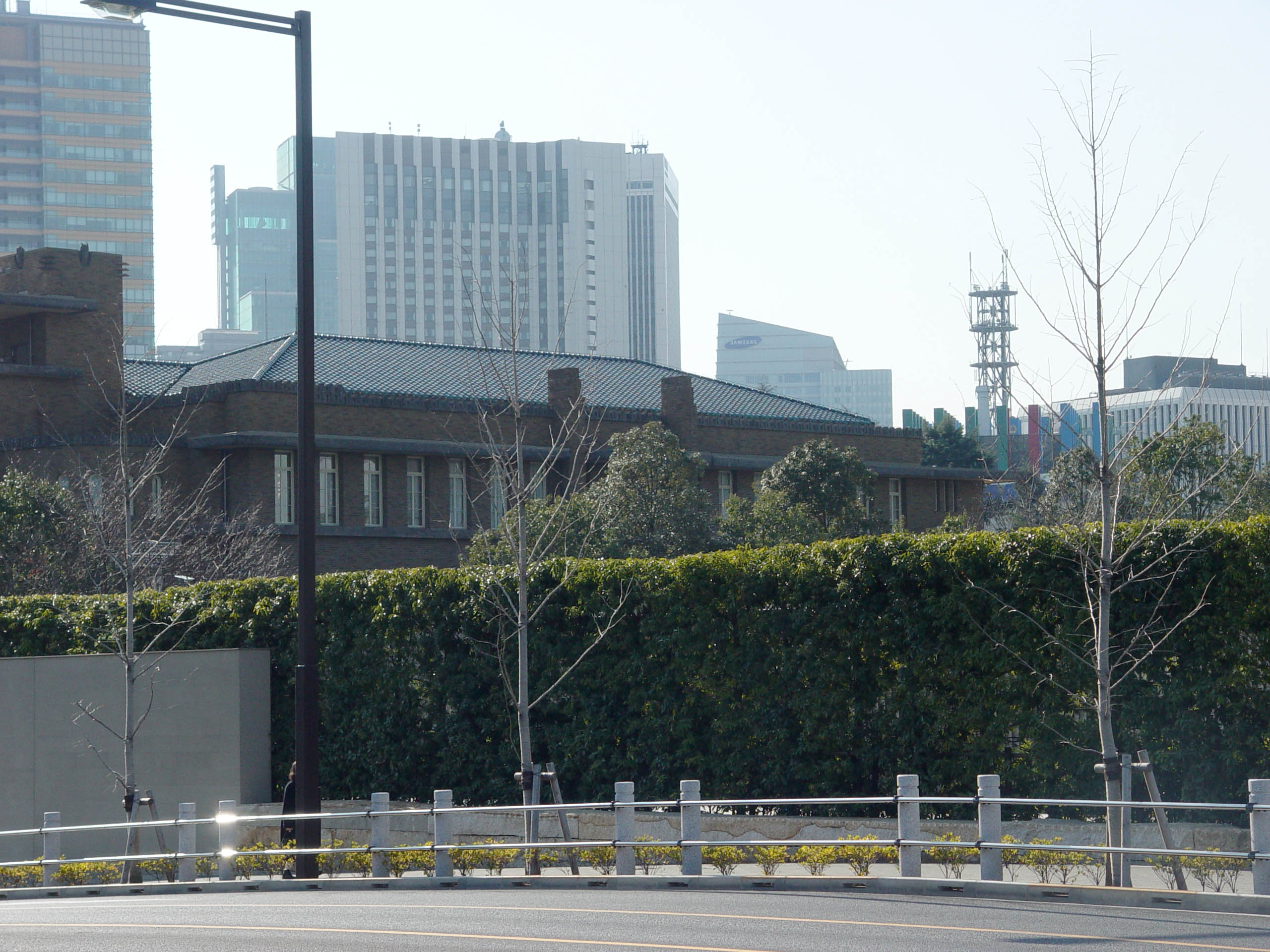 Prime Minister official residence, Japan 総理大臣官邸